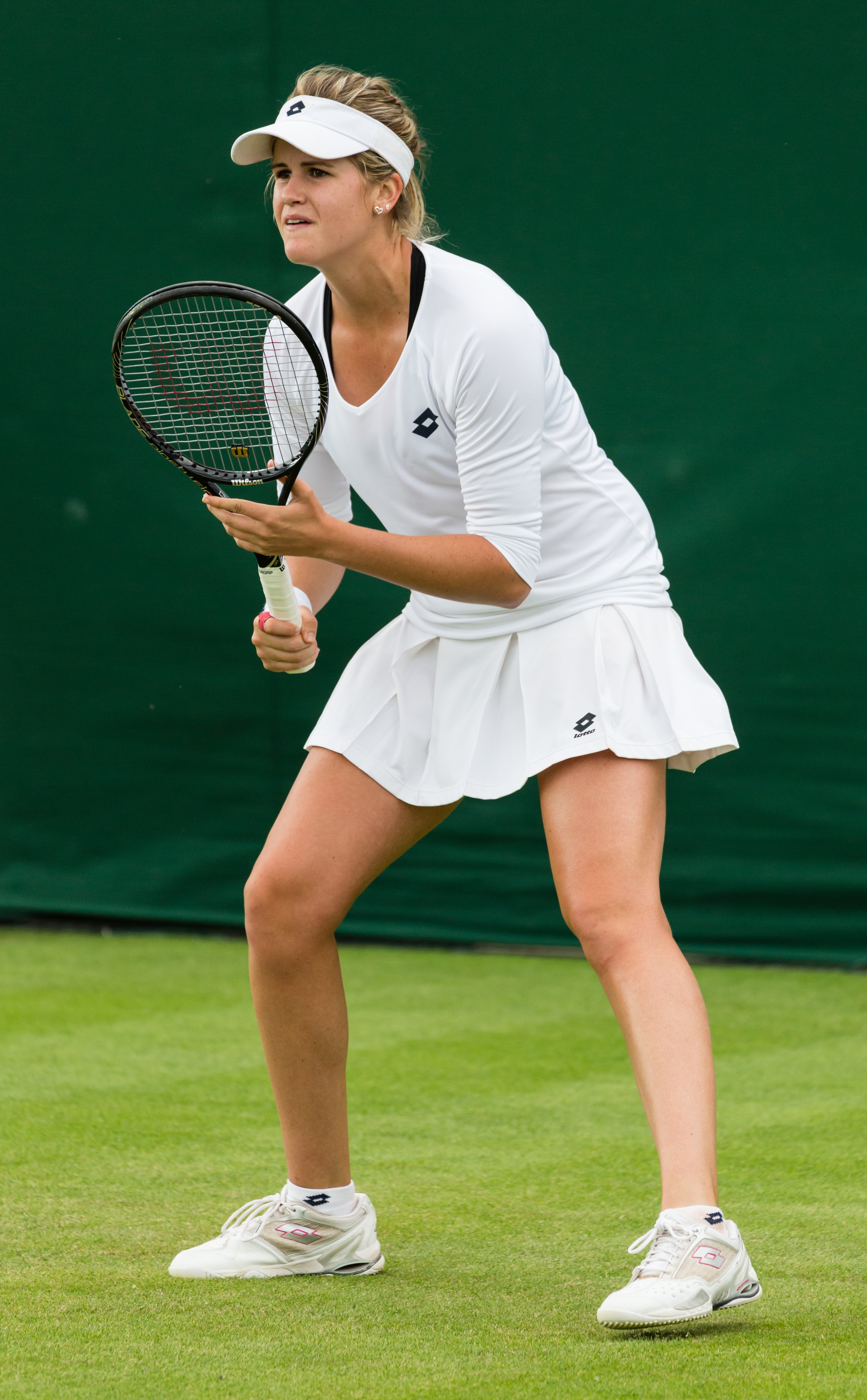 María Teresa Torró Flor playing in the first round against Irina-Camelia Begu at the 2013 Wimbledon Championships.